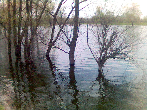 Severskii Donetz